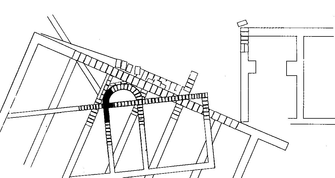 Late apsidal building overlying earlier structures in the submerged city of Apollonia (grid square C4) drawn by divers